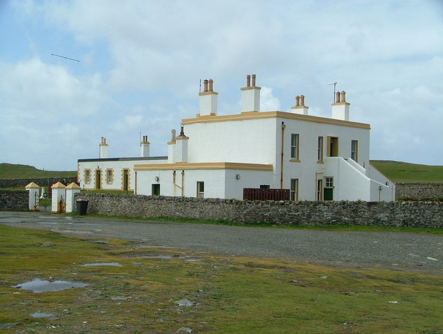 Butt of Lewis Lighthouse buildings